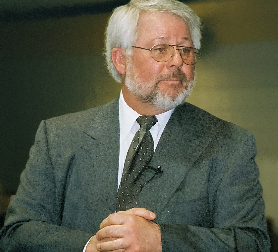 Jeffrey Wigand, speaking to an ethics conference at the University of South Florida St. Petersburg.